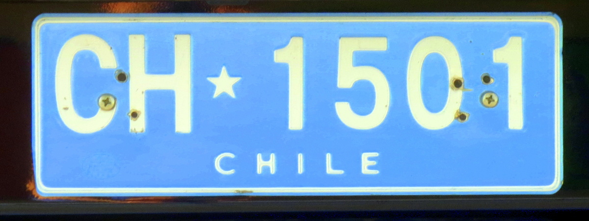 Chilean registration plate in format 2: Honorary consul